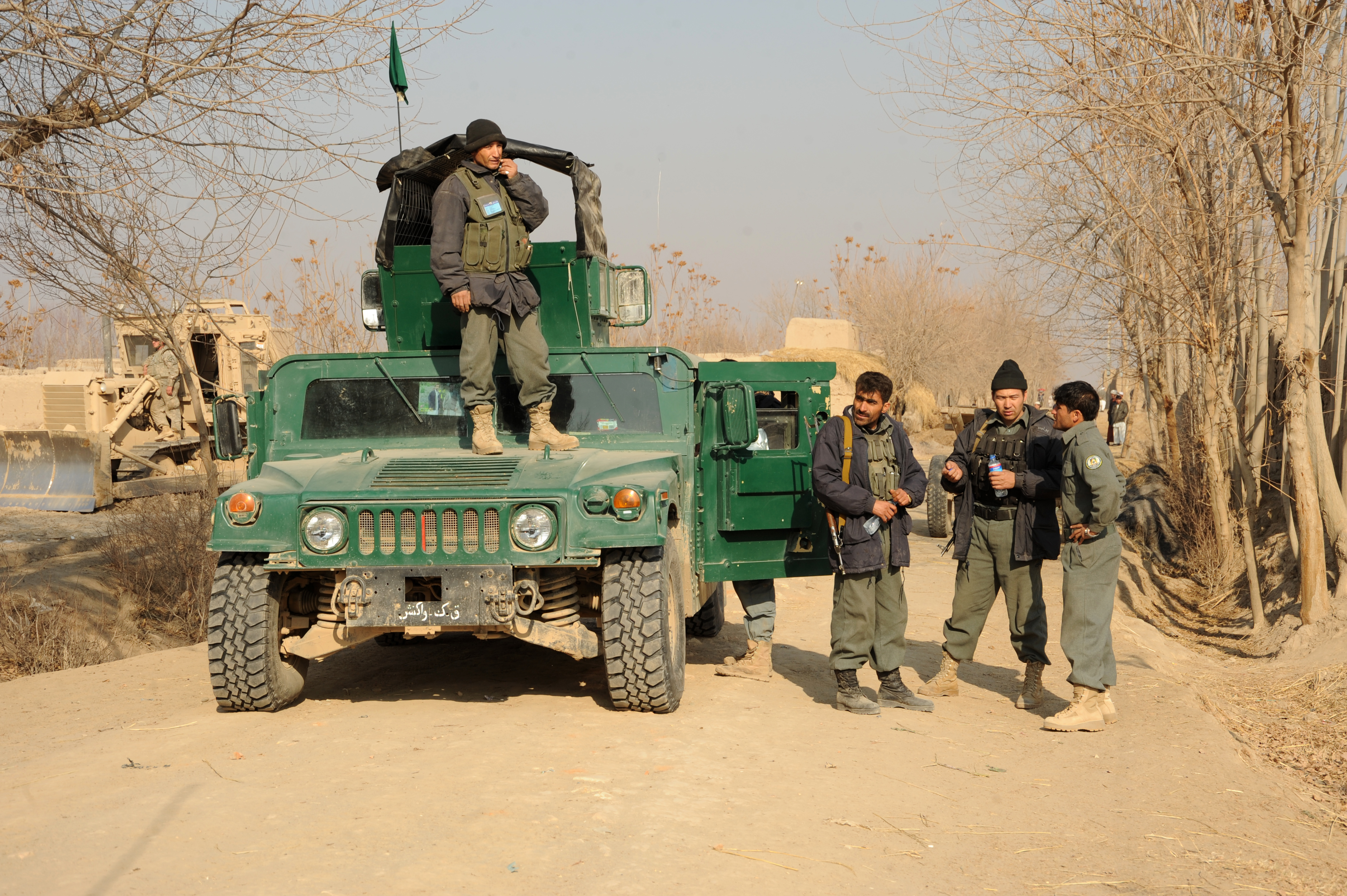 Members of the Afghan National Police secure a position near a section of road in the Gor Tepa region of the northern Afghanistan province of Kunduz, while Army combat engineers from the 2nd Engineer Battalion’s 40th Engineer Company work to clear it of improvised explosive devices.